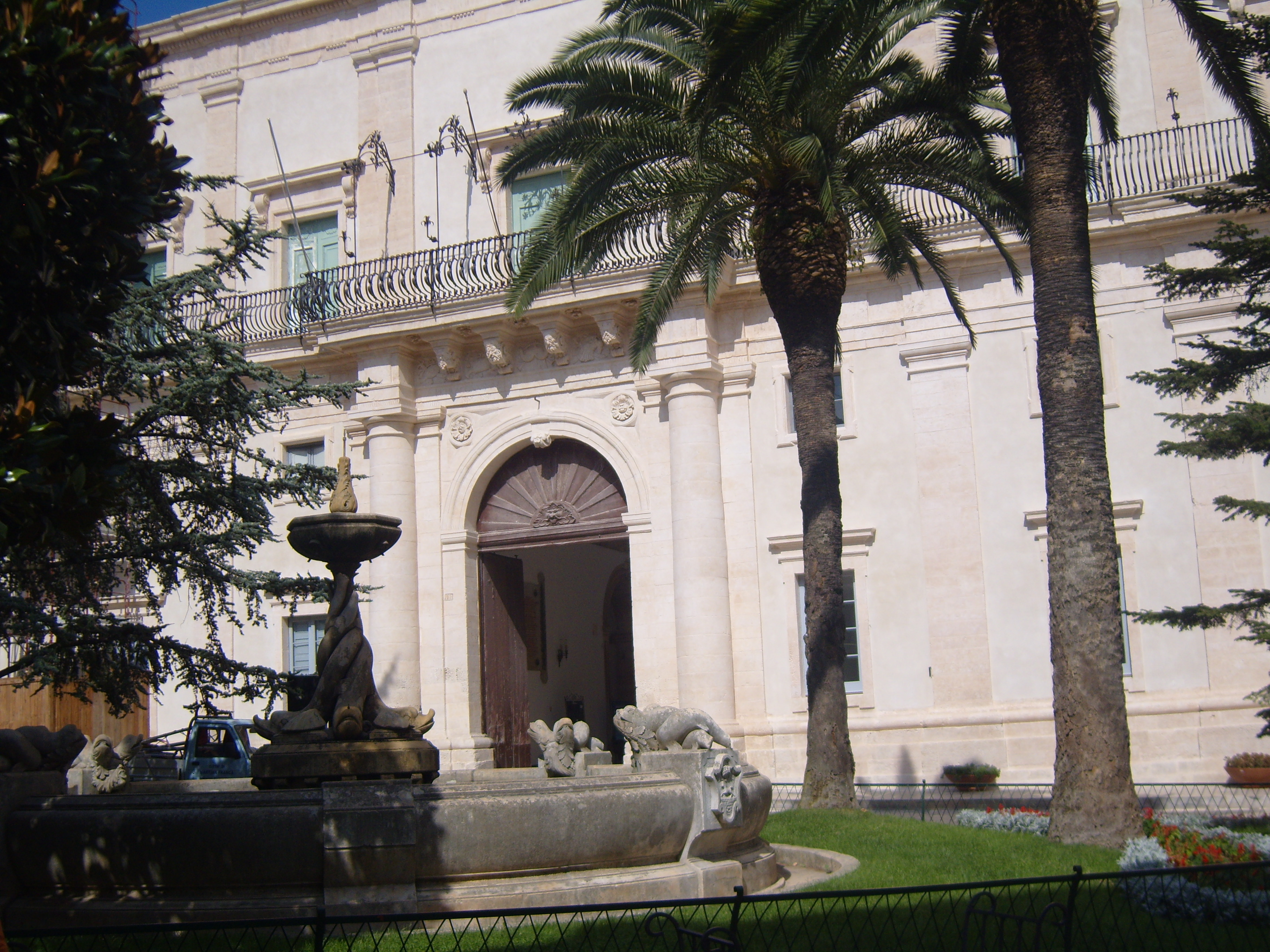 Ducal palace in Roma Square. Martina Franca, Province of Taranto, Italy